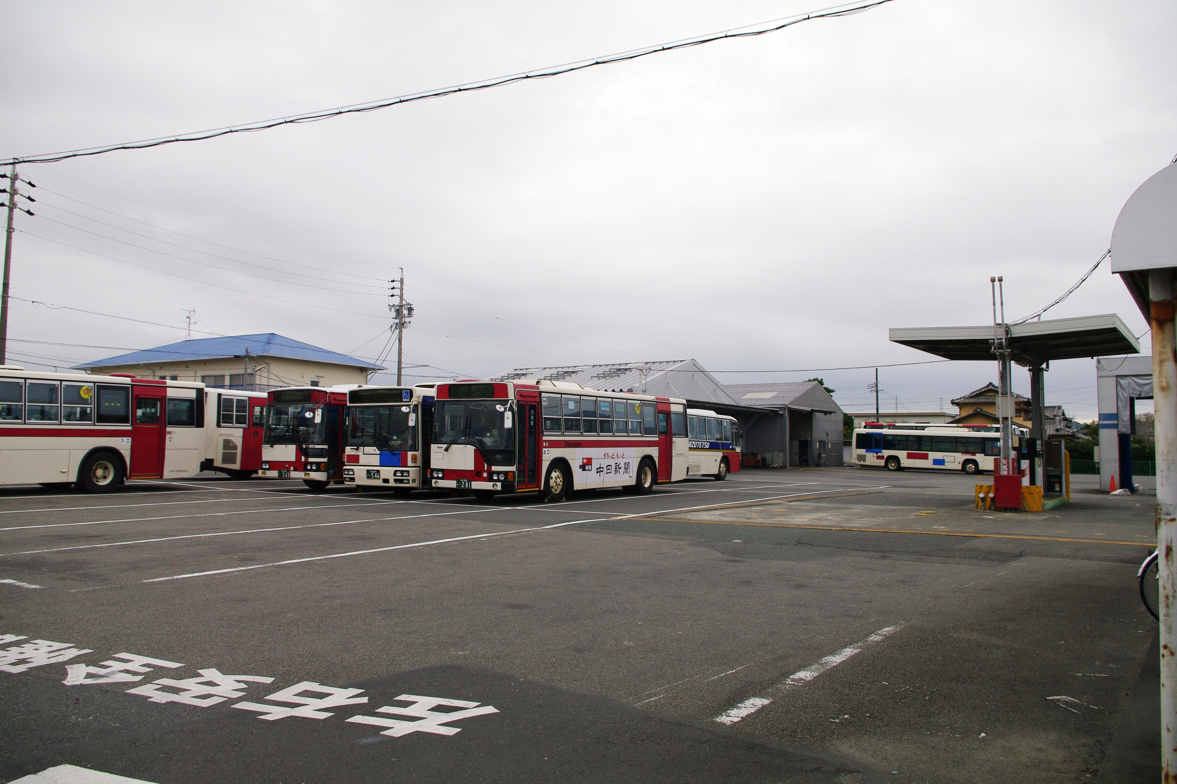 Shizutetsu Justline Hamaoka Depot